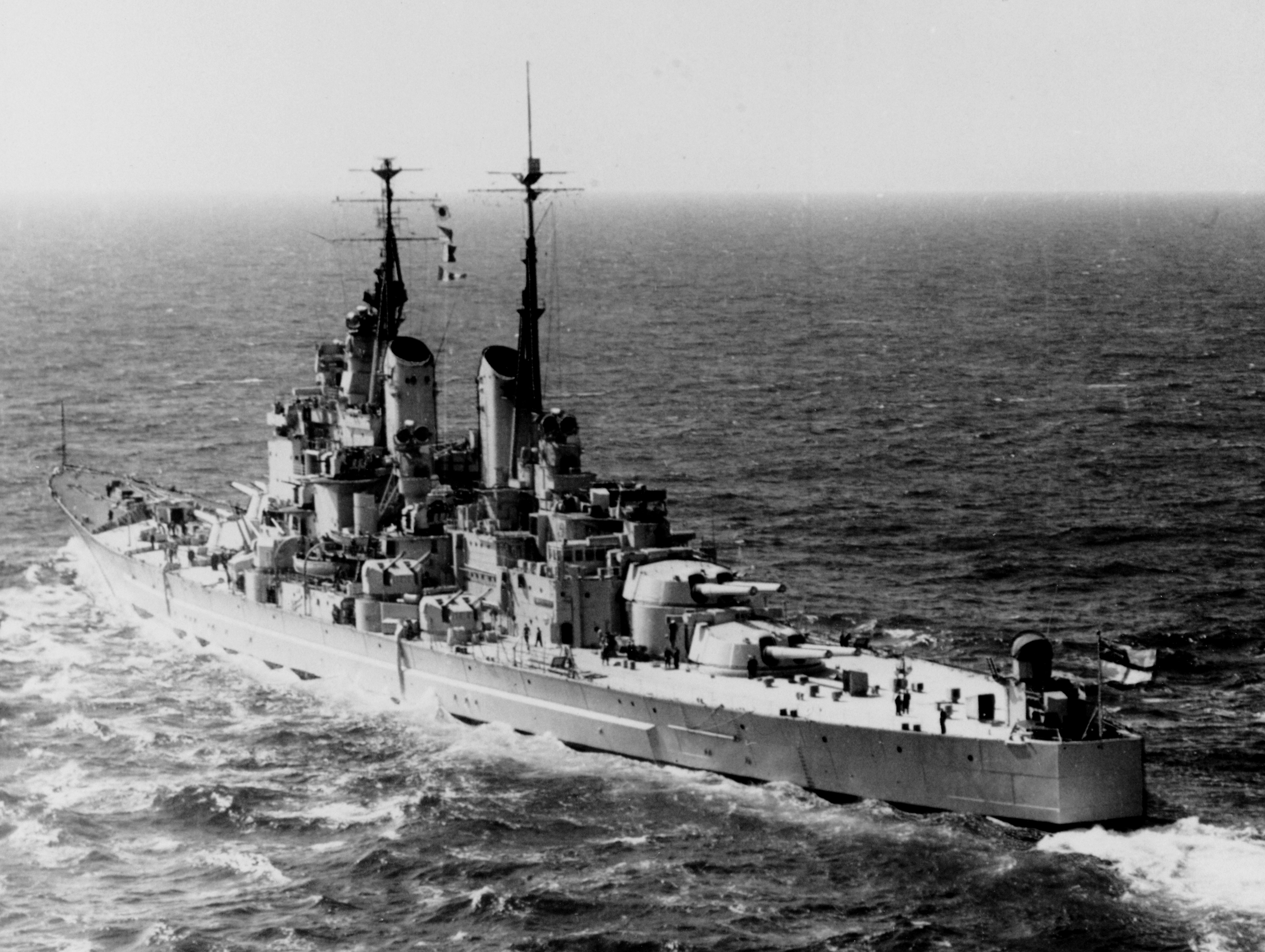 Stern quarter view of the Royal Navy battleship HMS Vanguard (23).